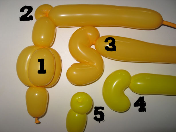 Different kind of balloon bubbles.